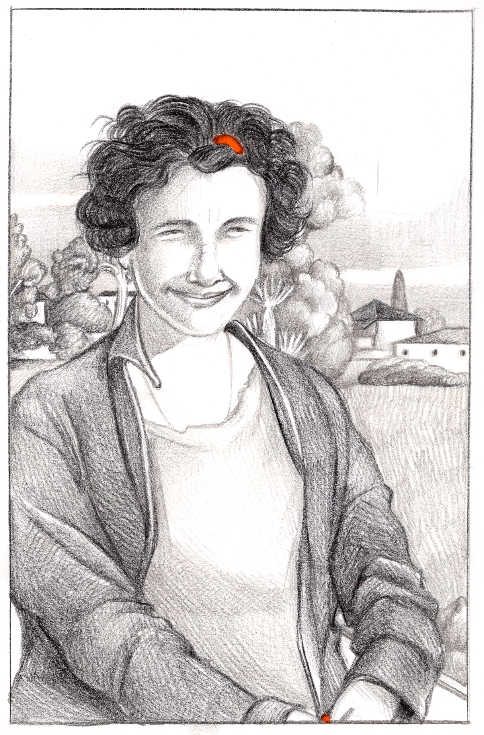 Self Portrait, Liora Grossman